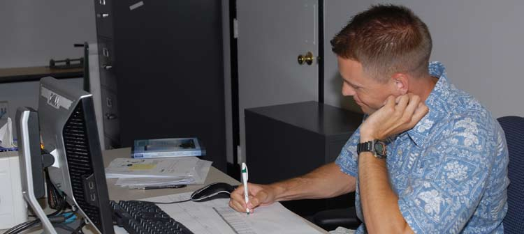 Air Force Capt. Daniel Dean, staff judge advocate with Joint Task Force Guantanamo, prepares to teach his first class at Columbia College, Oct. 20. Dean, teaching the personal finance course, is excited about the course and hopes the students will take away valuable information. – JTF Guantanamo photo by Army Spc. Tiffany Addair